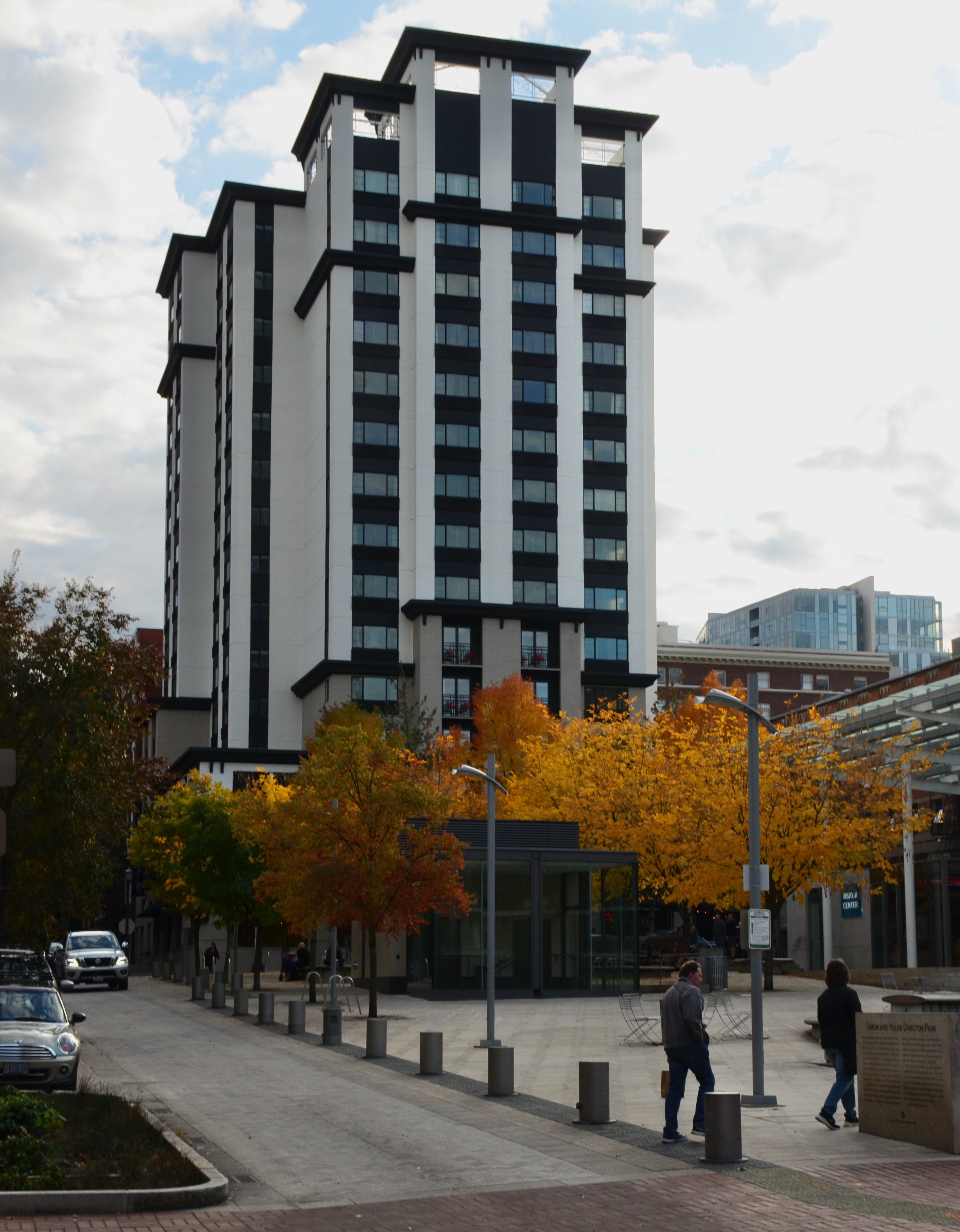 The Paramount Hotel, in downtown Portland, Oregon, from the north – from across Yamhill Street at Park Avenue. In the foreground are some trees in Director Park showing nice fall color.